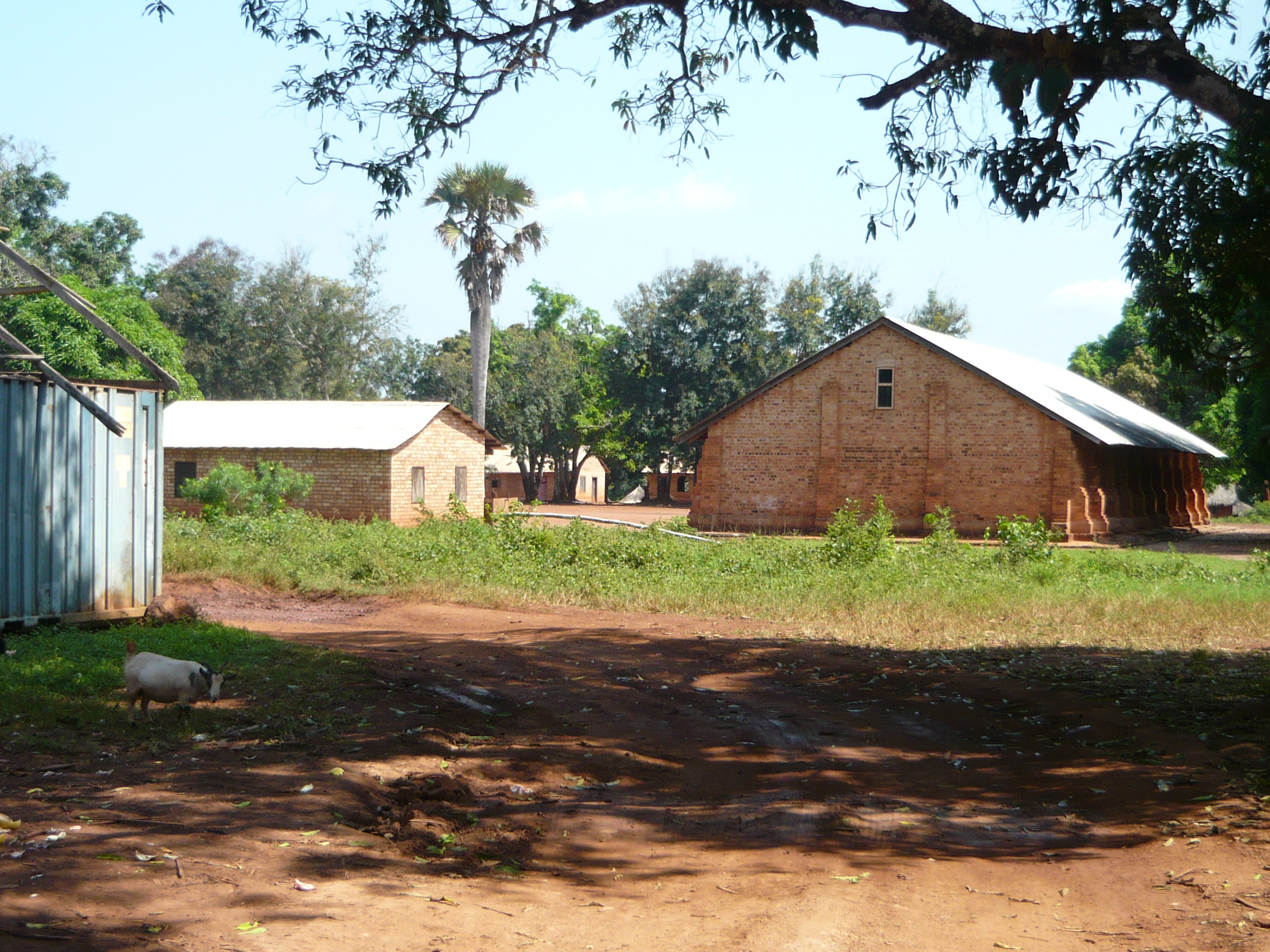 This is the rear view of the Obo Protestant Mission church with adjacent office, located at Obo, Central African Republic.